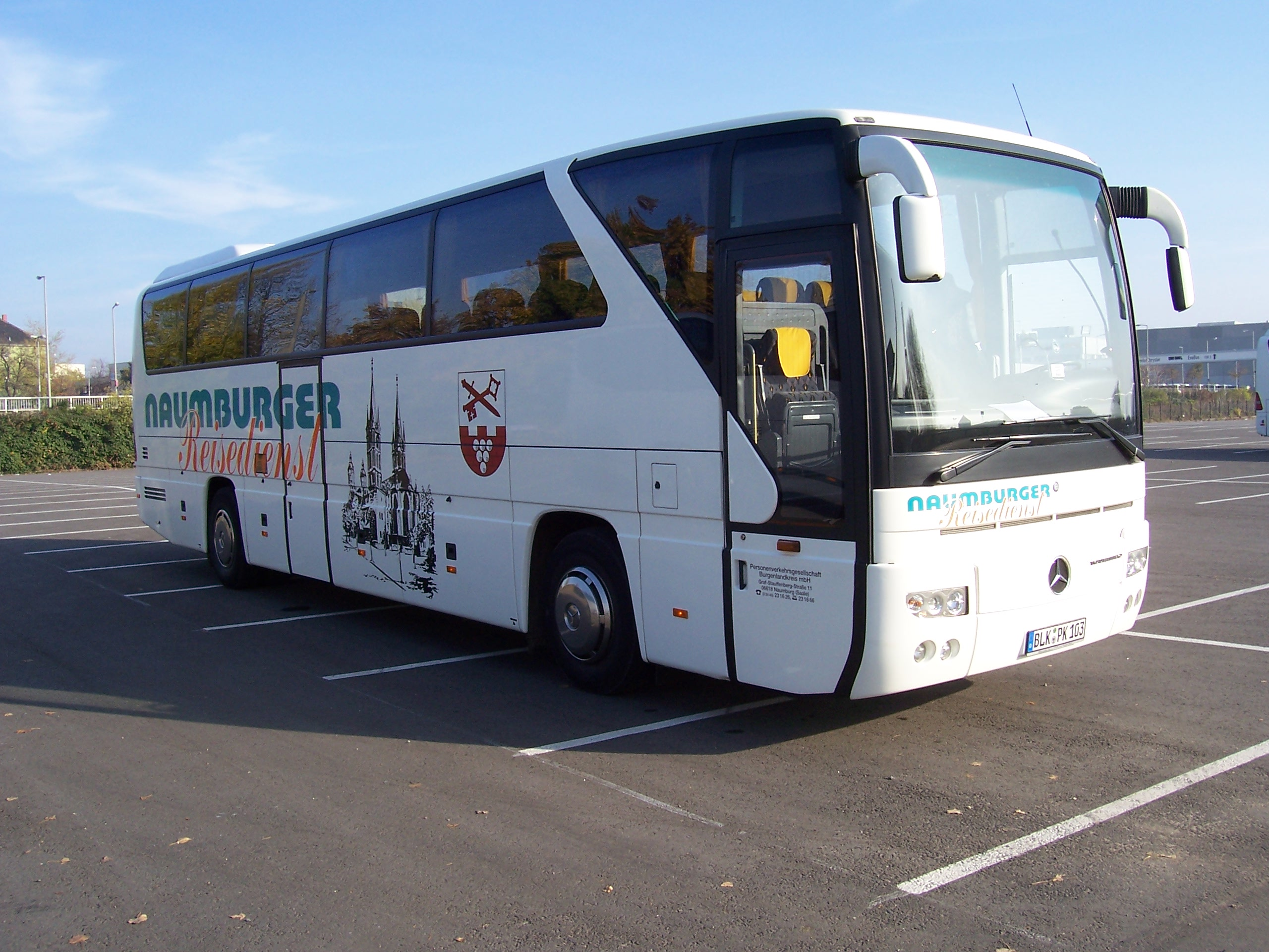 An EvoBus/Mercedes-Benz Tourismo at MOT 2005 in Mannheim, Germany My own photo from 13-nov-2005